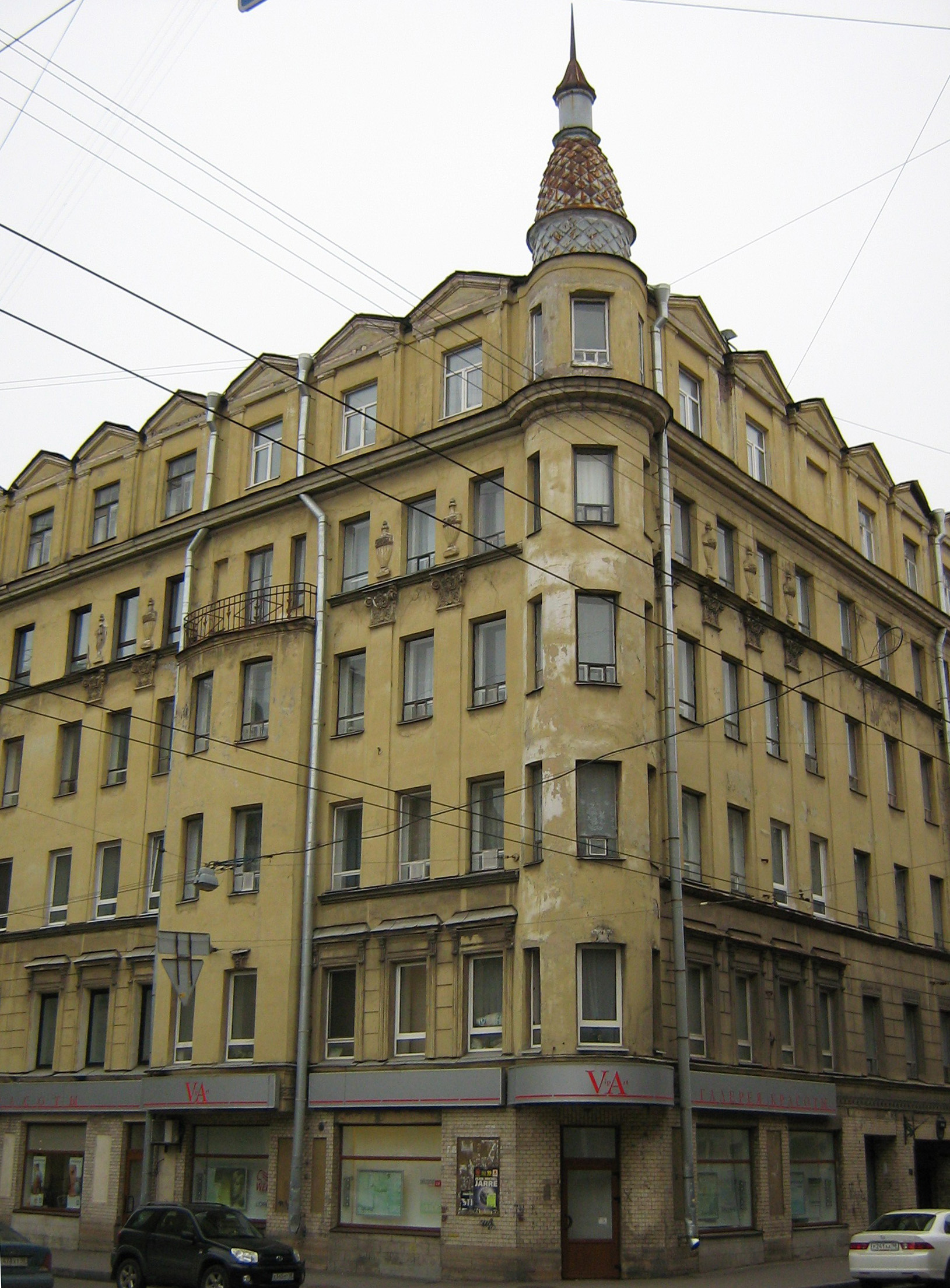 34, Bolshaya Pushkarskaya street, crossing with Gatchinskaya street (Saint Petersburg, Russia). Reconstruction: 1911, engineer Leon Bogussky